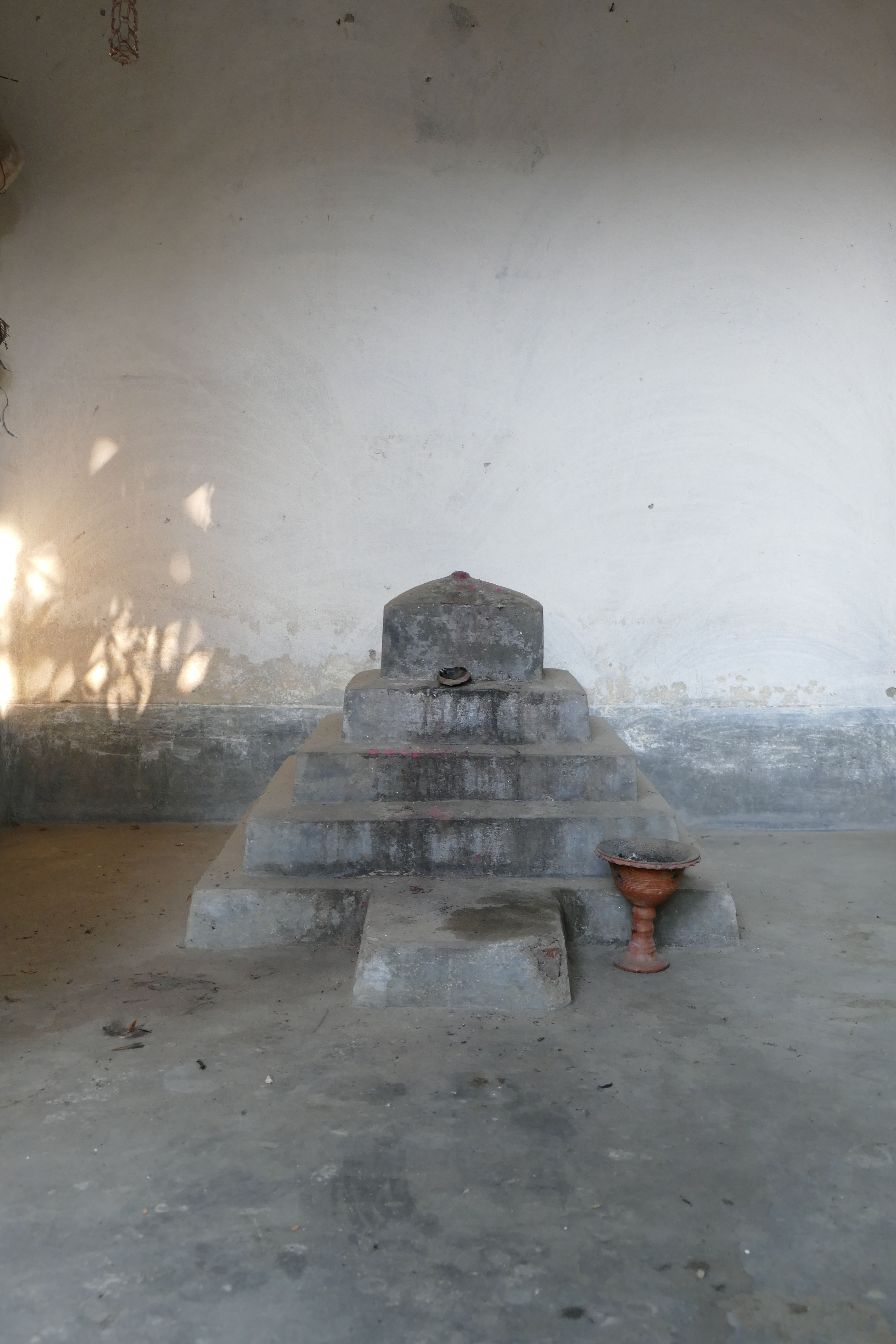 Holy place in a Santhal village in the Dinajpur district, Bangladesh - the Santhal religion is a form of animism This photo has been taken in the country: Bangladesh